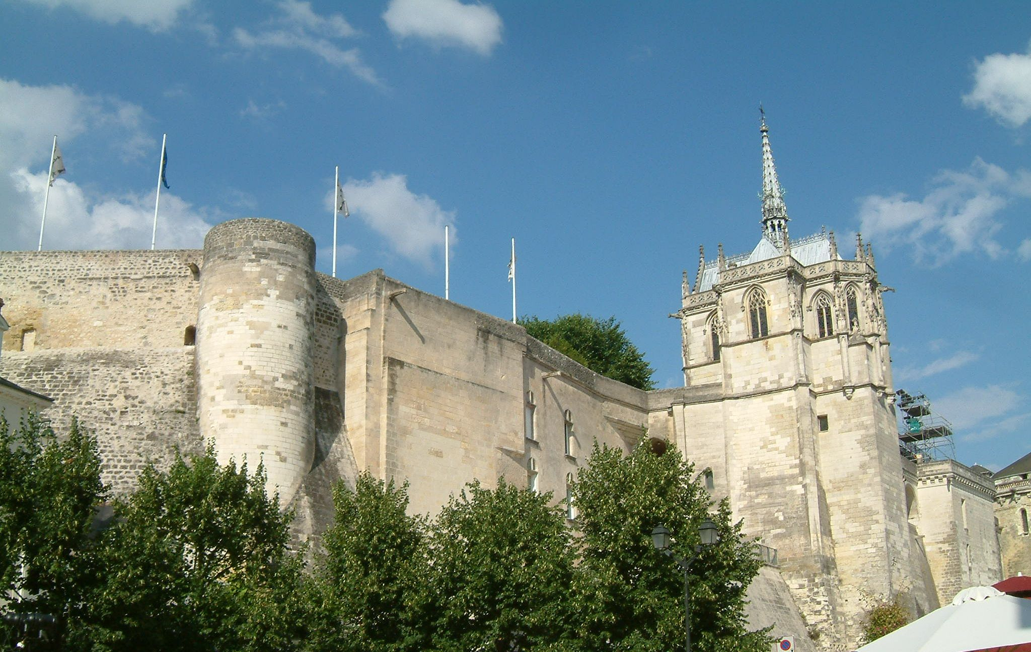 Amboise castle, Amboise, FRANCE